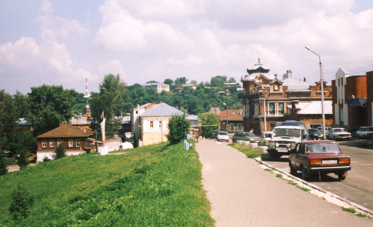 Town Museum at Lomonosov Street